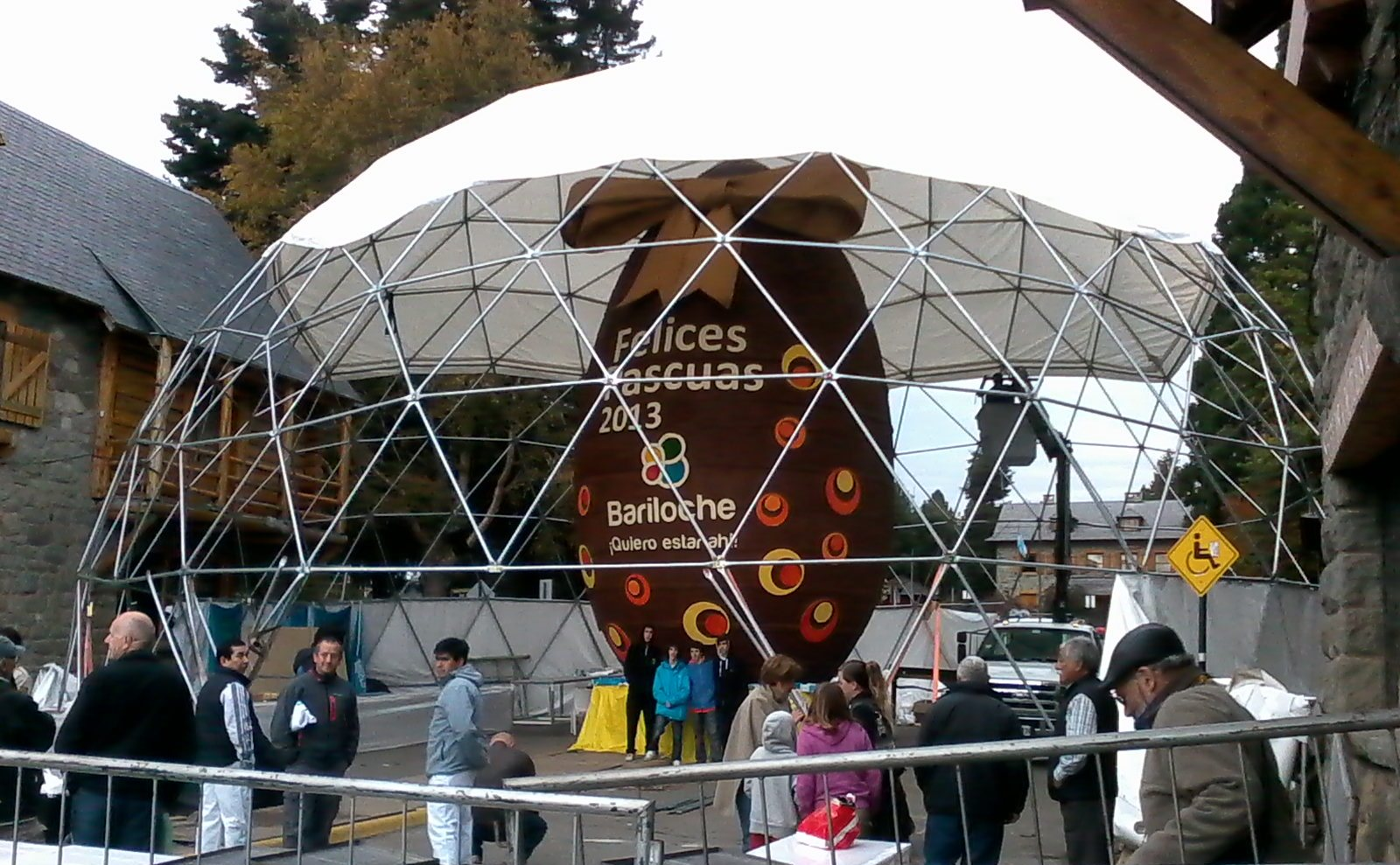 Easter egg in Bariloche (Argentina).